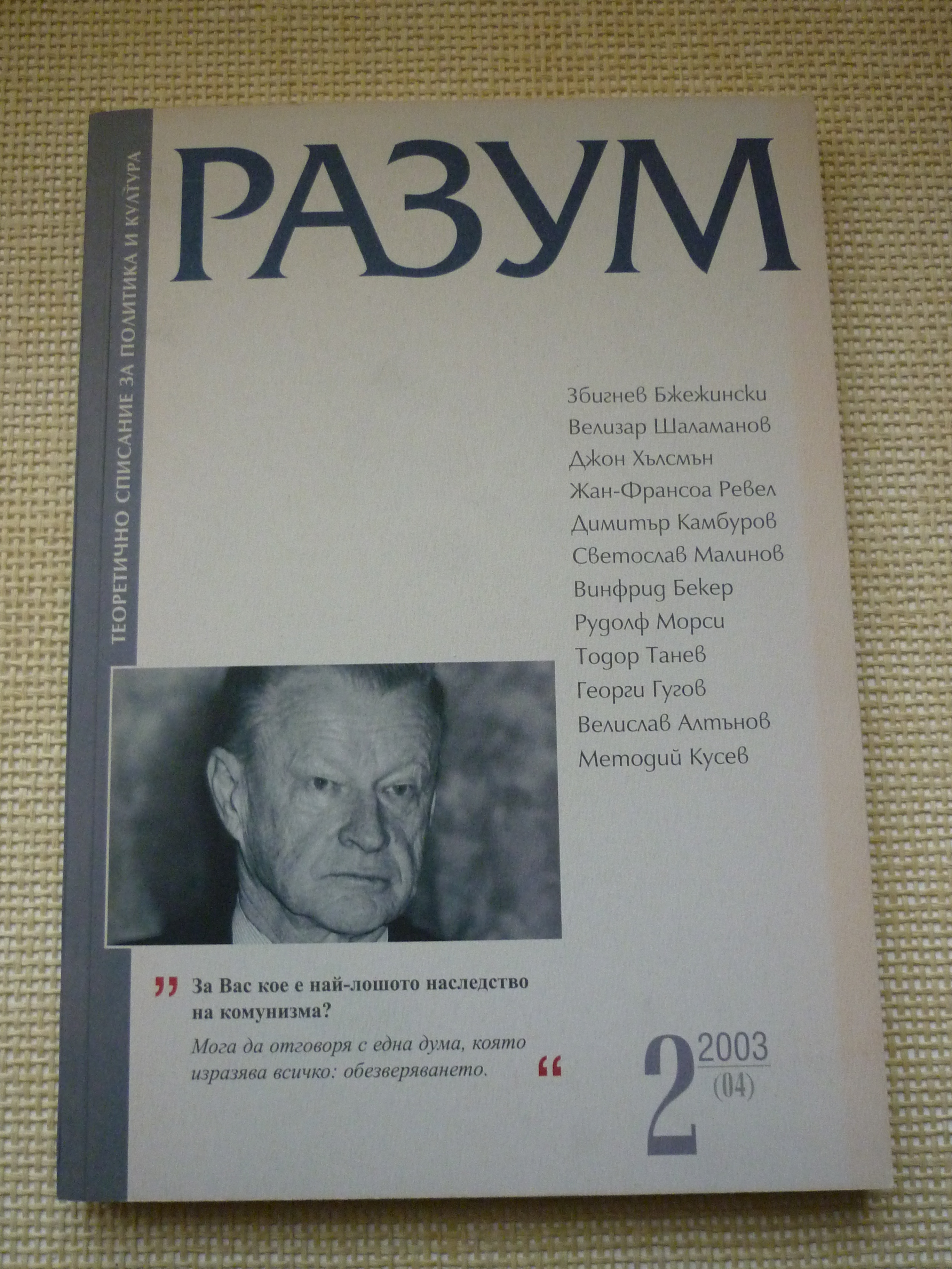 Cover of the second issue of „Reason“ magazine in 2003. The number is dedicated to Polish-American political scientist Zbigniew Brzeziński.